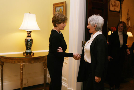 Laura Bush welcomes Aliza Olmert, israeli artist and wife of Ehud Olmert